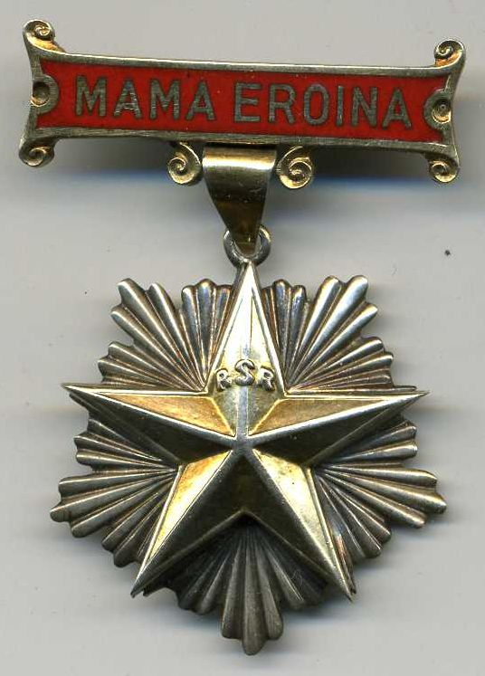 Order "Heroe Mother", RSR